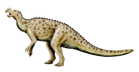 Muttaburrasaurus